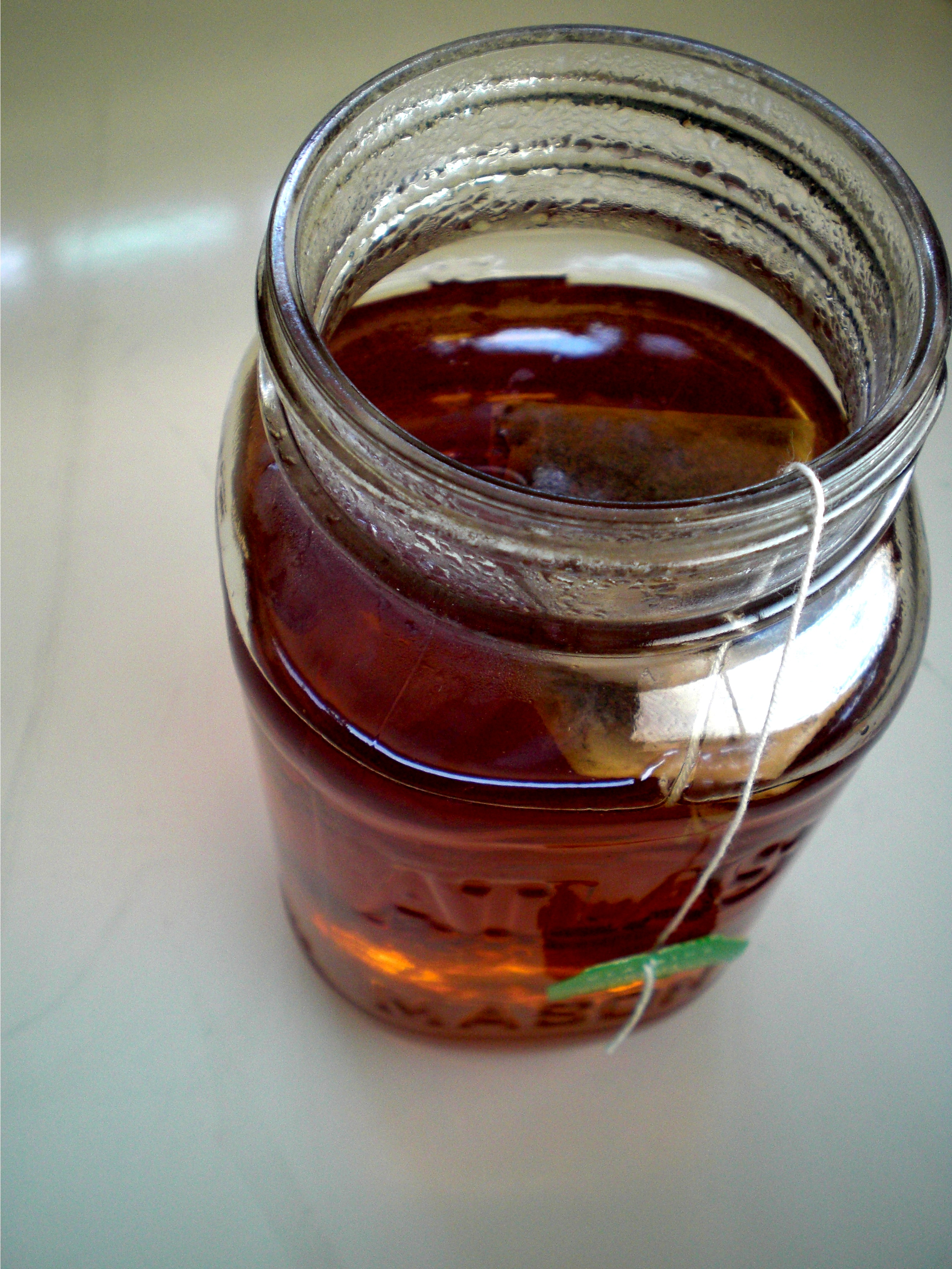 One of my favorite tea cups is a reused mason jar.. probably from some spaghetti sauce. The jar is hot when you pour in the water but it feels great on a cold morning. 012709